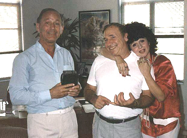 From left to right: Zbigniew Rogowski (Hollywood actor/journalist/film critic from Poland), Mel Brooks, and Yola Czaderska-Hayek (Hollywood journalist from Poland) in Hollywood